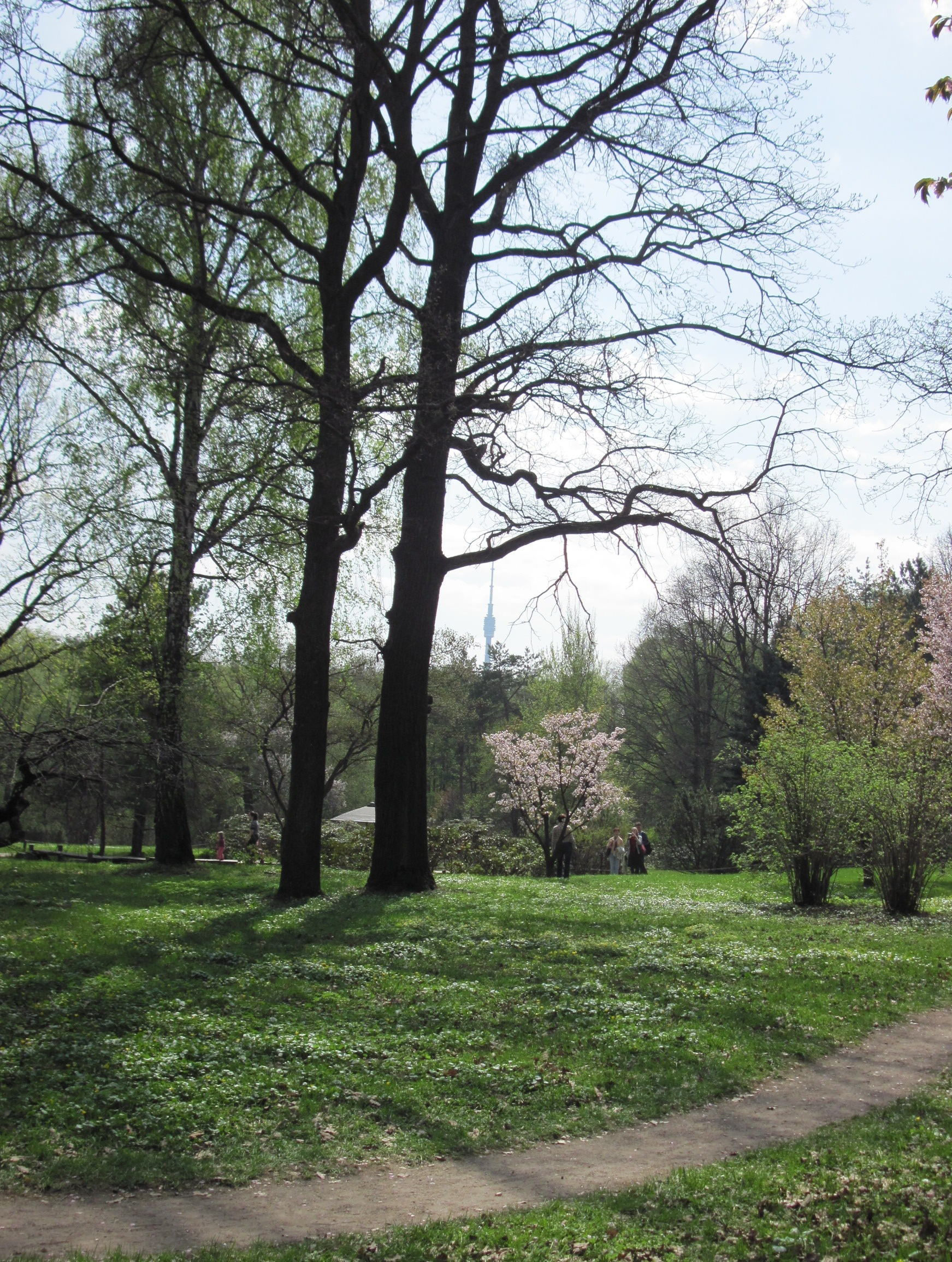 Moscow Botanical Garden of Academy of Sciences